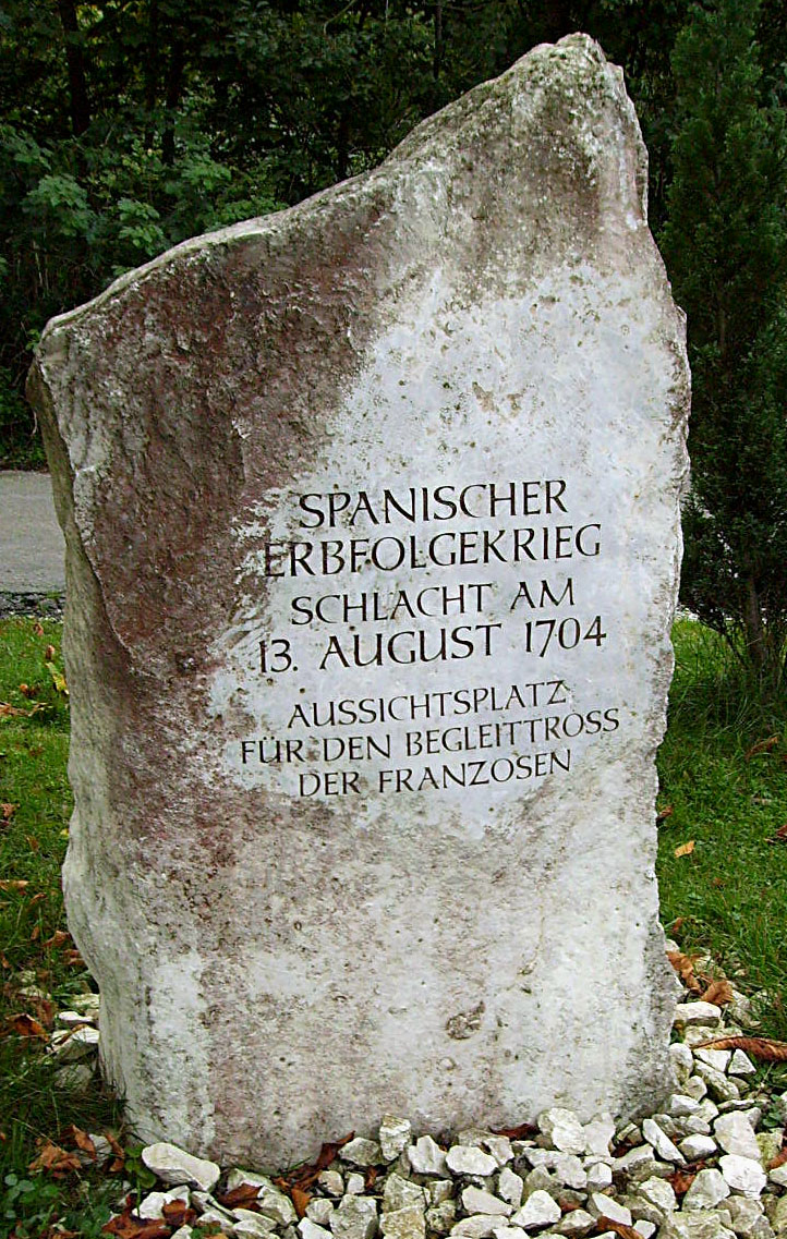 Memorial for the Battle of Blenheim 1704, Lutzingen, Germany. Translated inscription: War of the Spanish Succession; Battle on August, 13th 1704; View point for the French convoy